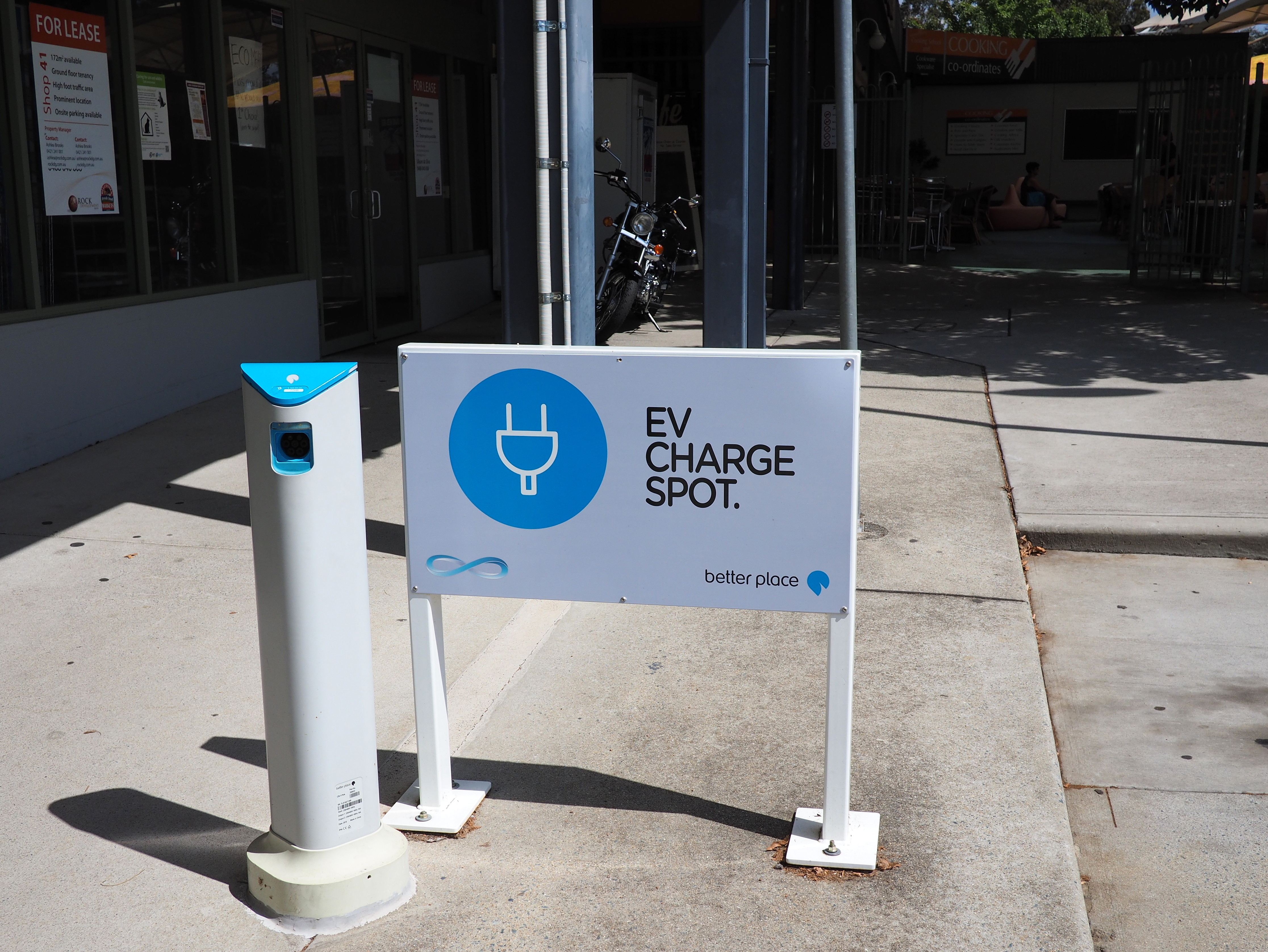 An electric vehicle recharging point at the Belconnen Markets in Canberra